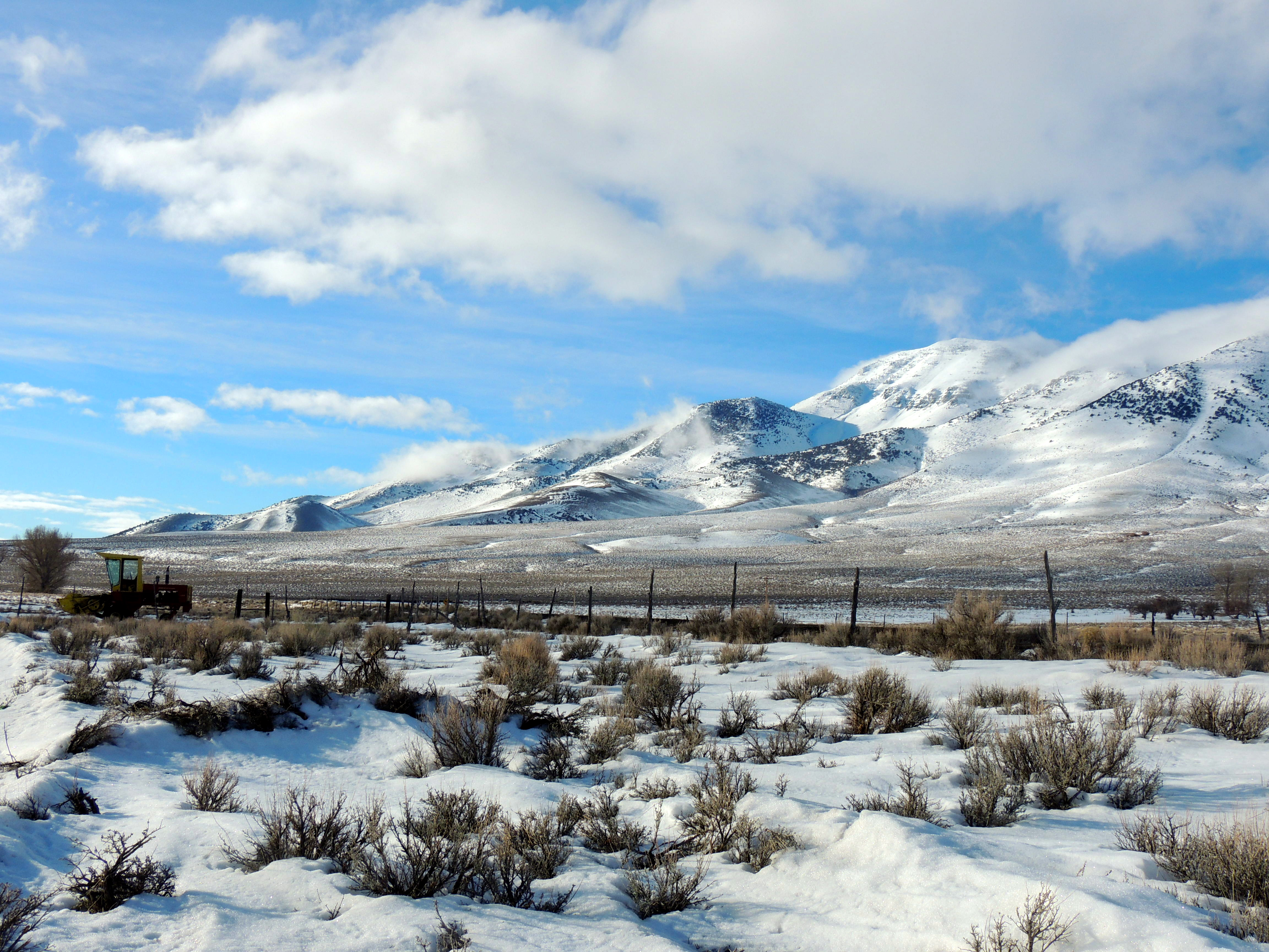 Diamond Range, east-central NV